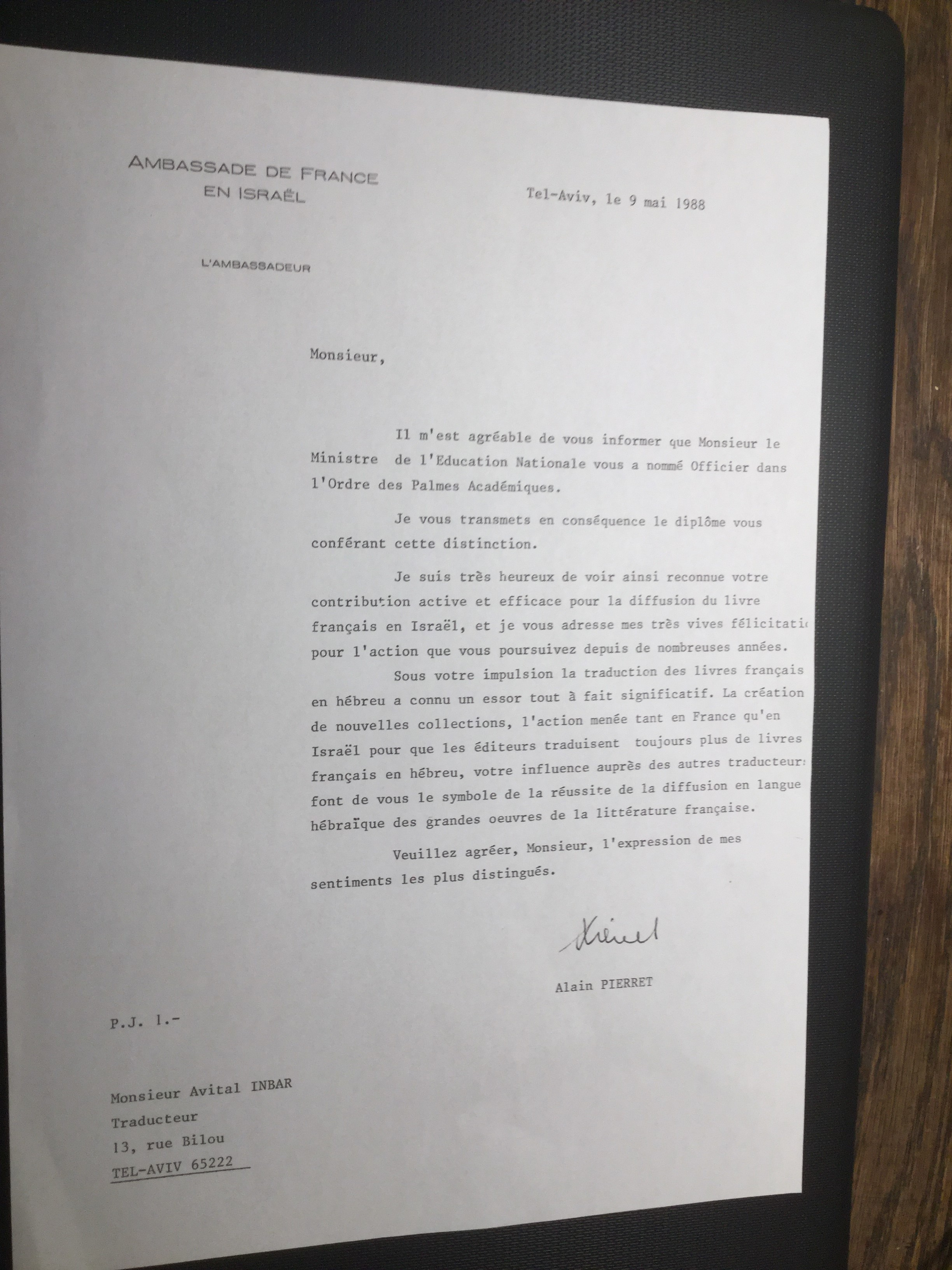 Ordre des Palmes Académiques Office award letter